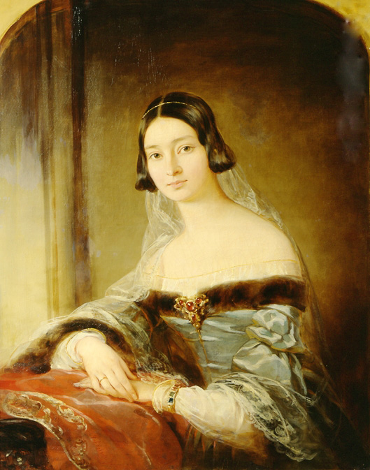 Maria Buturlina (1815—1902)